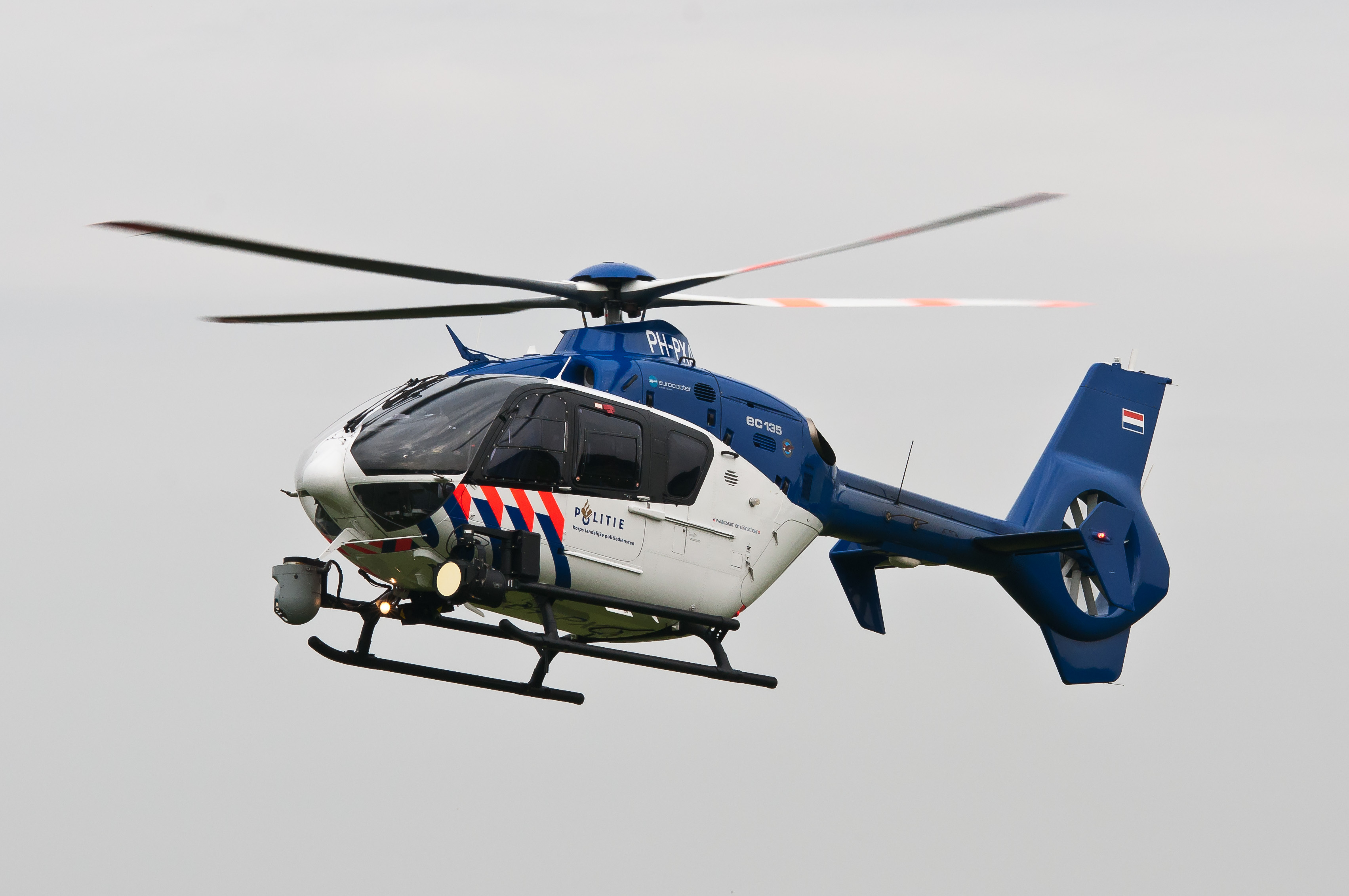 New police helicopter during NTM 2010